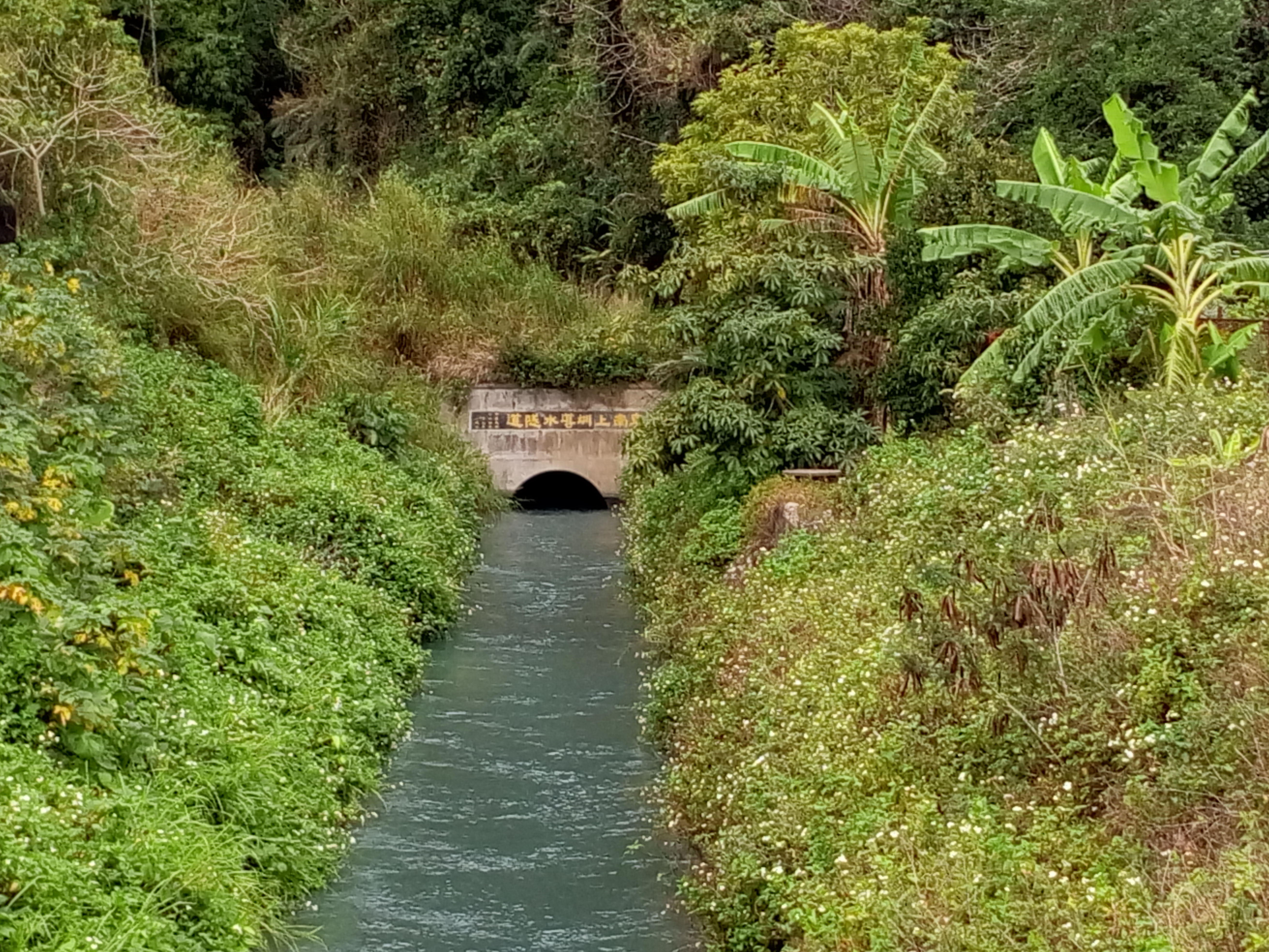 Taiwan(R.O.C)Taitung Yanping Township Beinan first waterway